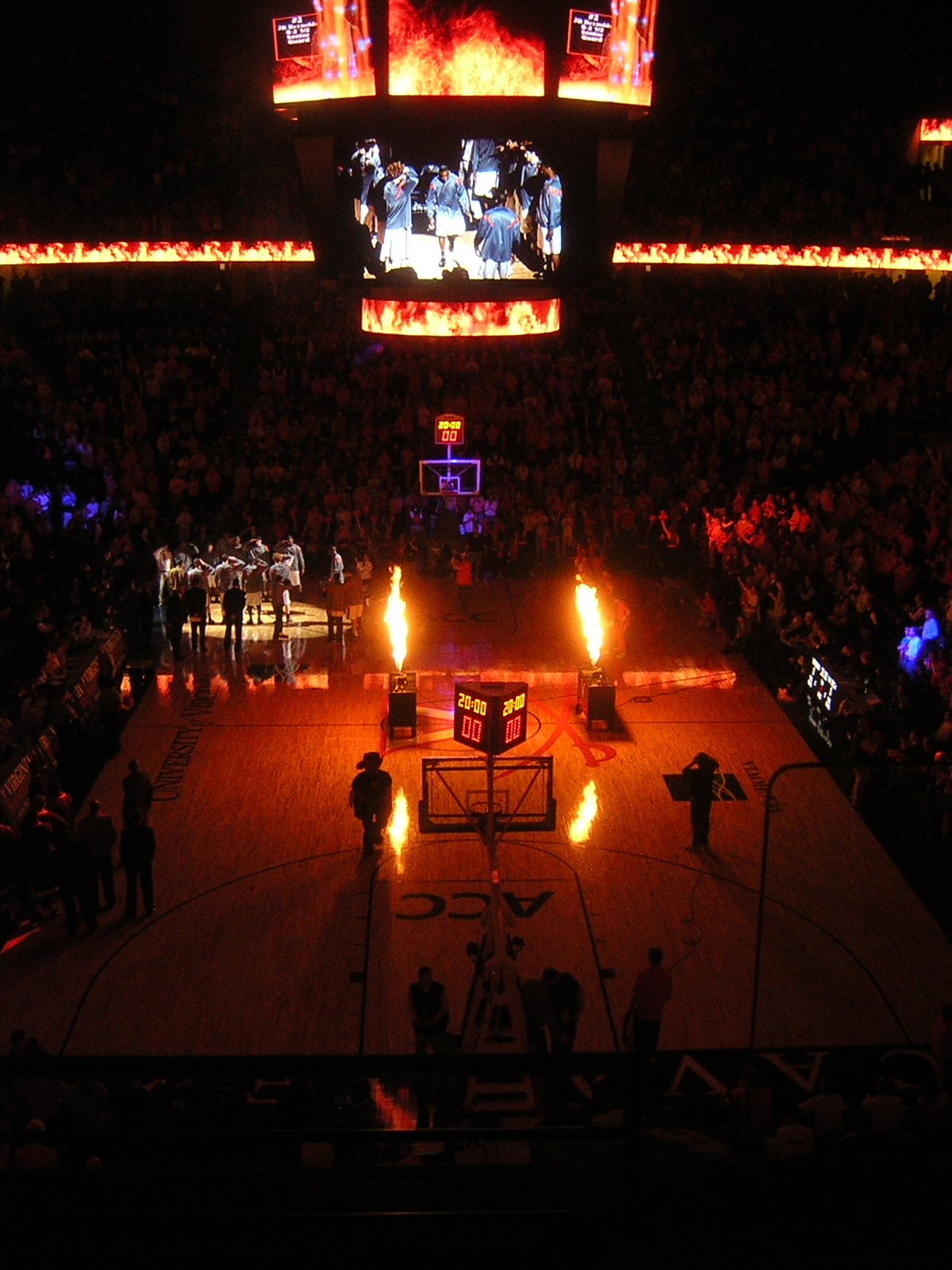 University of Virginia men's basketball senior night recognition at John Paul Jones Arena